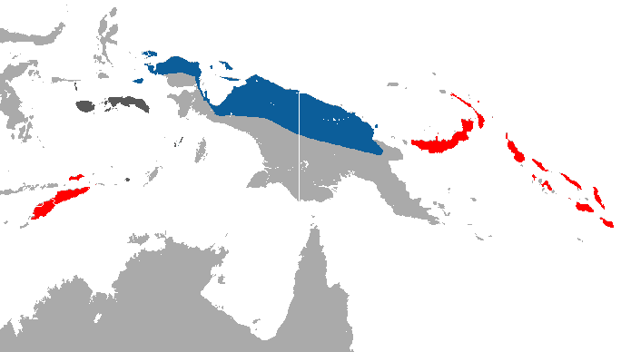 Northern Common Cuscus (Phalanger orientalis) range (blue — native, red — introduced, dark gray — origin uncertain)